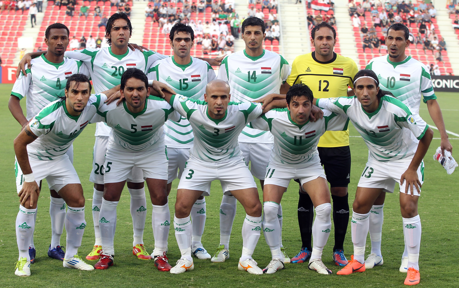 The Iraqi national football team pose ahead of their 2014 FIFA World Cup qualifying match against Oman in Doha. Picture by Mohan